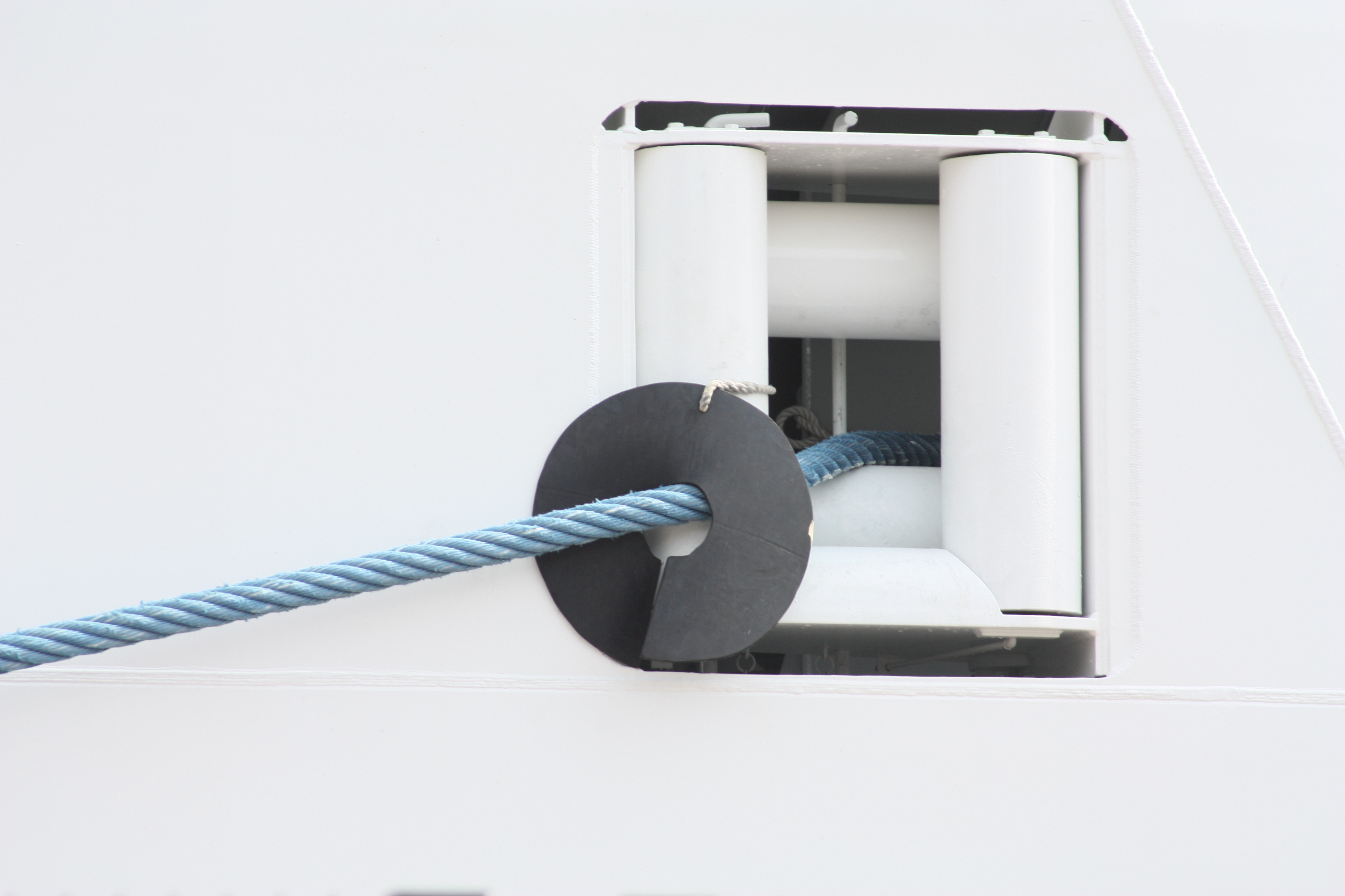 A rat guard, a steel or aluminum disc, attached to the mooring line to prevent rats from boarding. AIDAluna in Kopenhagen 2009.